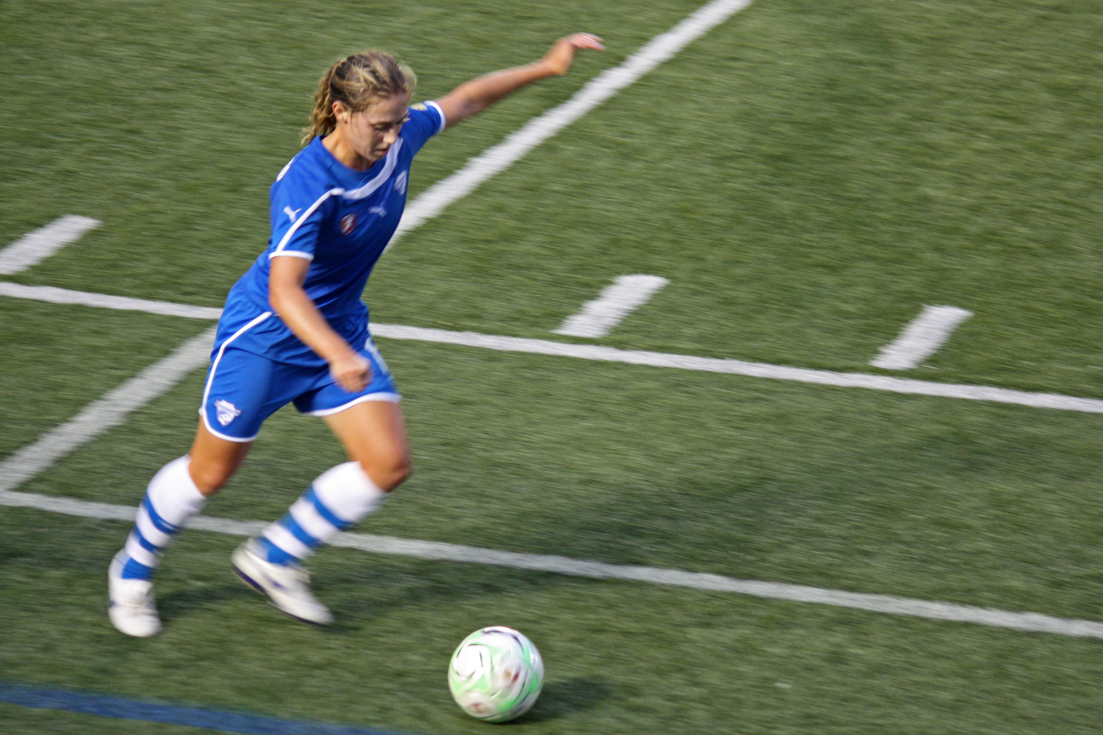 Megan Klingenberg lines up a free kick during magicJack's 2-0 win over the Boston Breakers, Saturday, August 6 at Harvard Stadium in Boston, Mass.